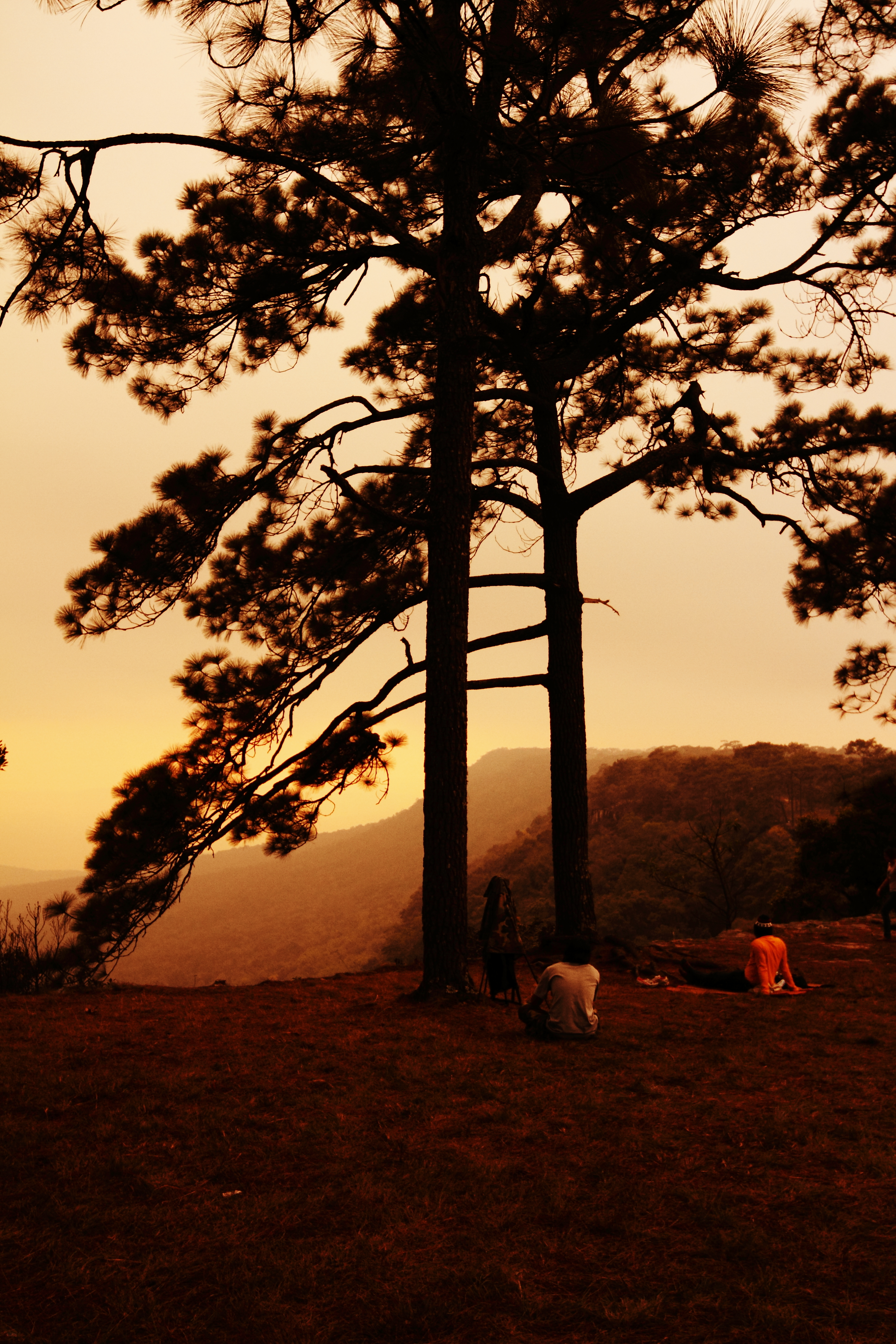 phukradung national park